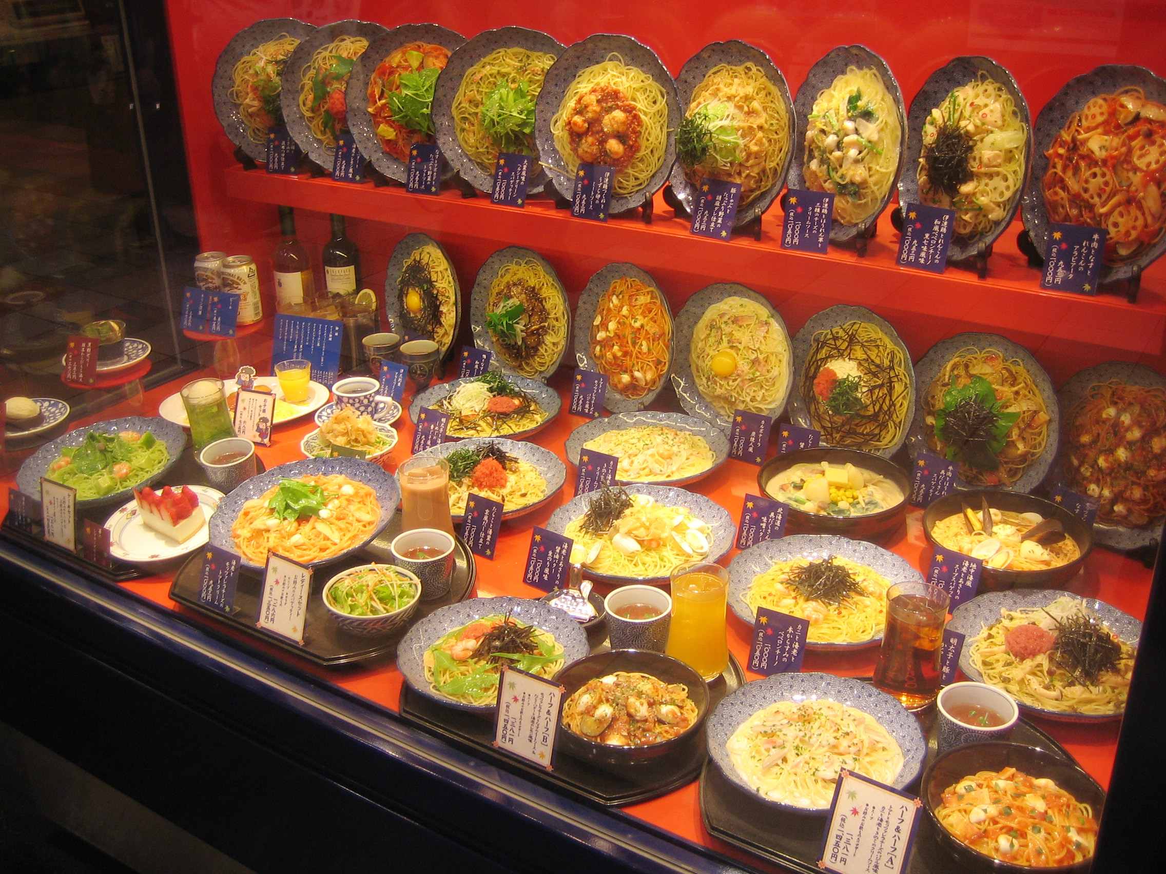 Food samples (食品サンプル) displayed in the shopwindow. They are made from vinyl, plastic, etc.